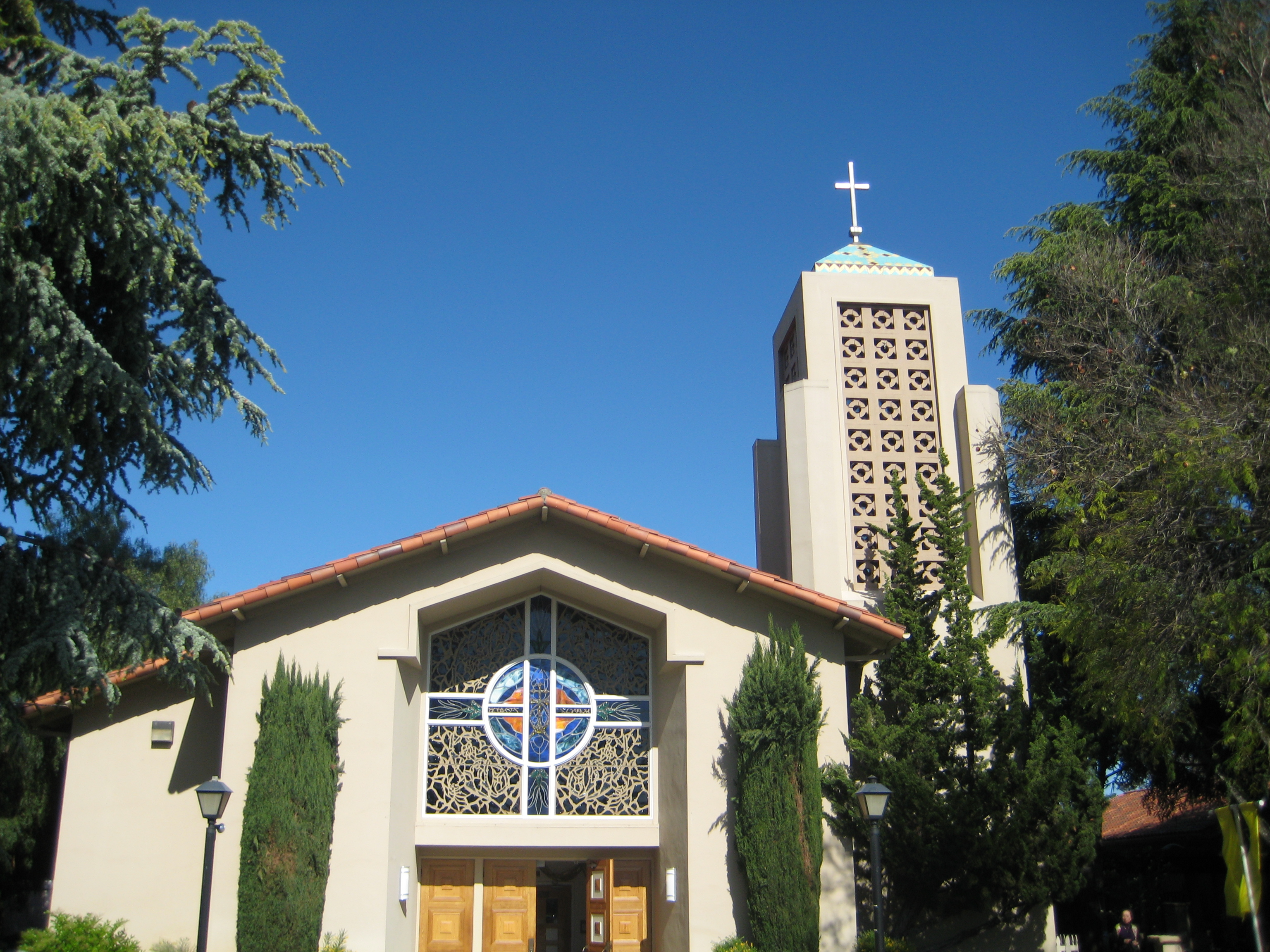 The front of St. Joseph of Cupertino Parish Church Roman Catholic Diocese of San José in California